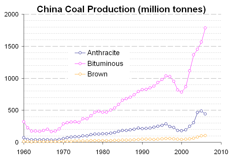 Graph of types of coal produced in China. Data from